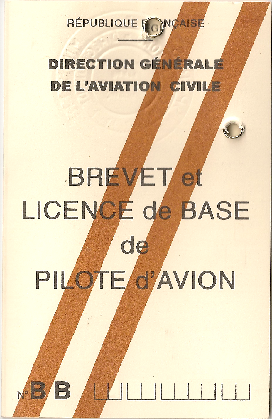 French Basic Flight Licence's cover